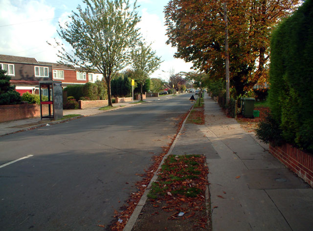 Old Tye Avenue, Biggin Hill TN16. Looking south